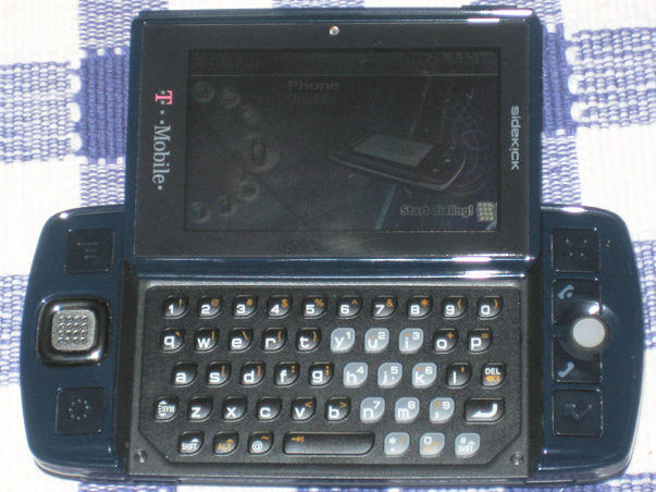 Taken by me, phoenixMourning on May 29, 2008 for use on the Danger Hiptop article.